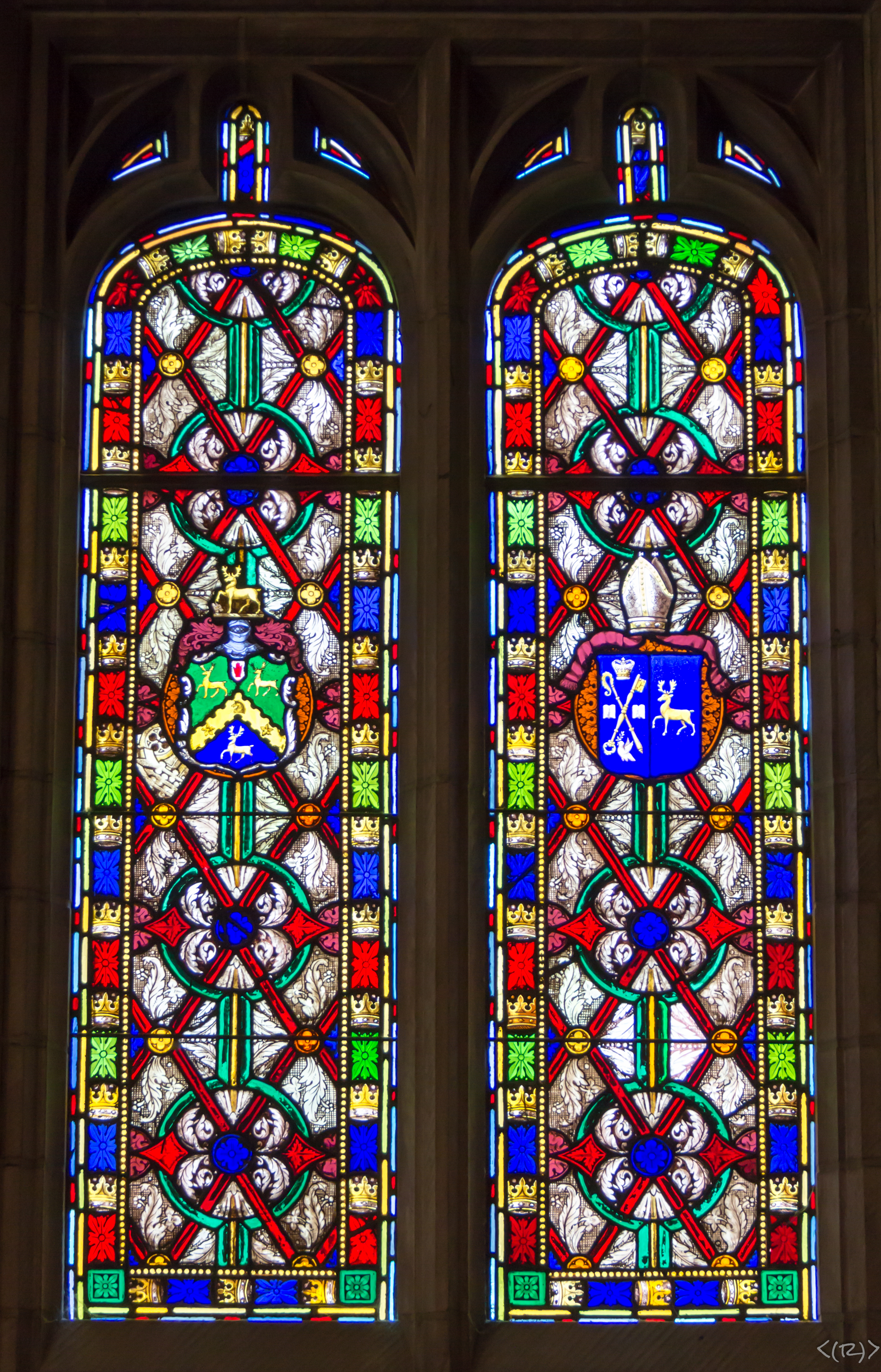 Stained glass window at Trinity College, University of Toronto